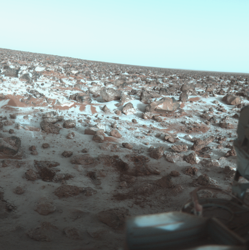 This false color photo of the surface of Mars was taken by Viking Lander 2 at its Utopia Planitia landing site on May 18, 1979, and relayed to Earth by Orbiter 1 on June 7. It shows a thin coating of water ice on the rocks and soil. The time the frost appeared corresponds almost exactly with the buildup of frost one Martian year (23 Earth months) ago. Then it remained on the surface for about 100 days. Scientists believe dust particles in the atmosphere pick up bits of solid water. That combination is not heavy enough to settle to the ground. But carbon dioxide, which makes up 95 percent of the Martian atmosphere, freezes and adheres to the particles and they become heavy enough to sink. Warmed by the Sun, the surface evaporates the carbon dioxide and returns it to the atmosphere, leaving behind the water and dust. The ice seen in this picture, like that which formed one Martian year ago, is extremely thin, perhaps no more than one-thousandth of an centimeter thick. The view is looking towards the south southeast, the long boulder to the right is roughly one meter across.